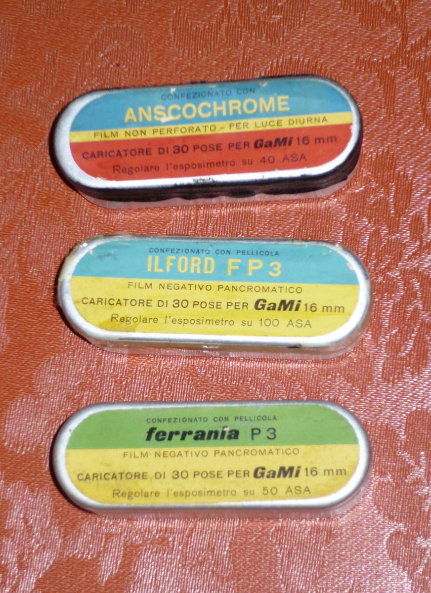 Gami 16 film cassettes